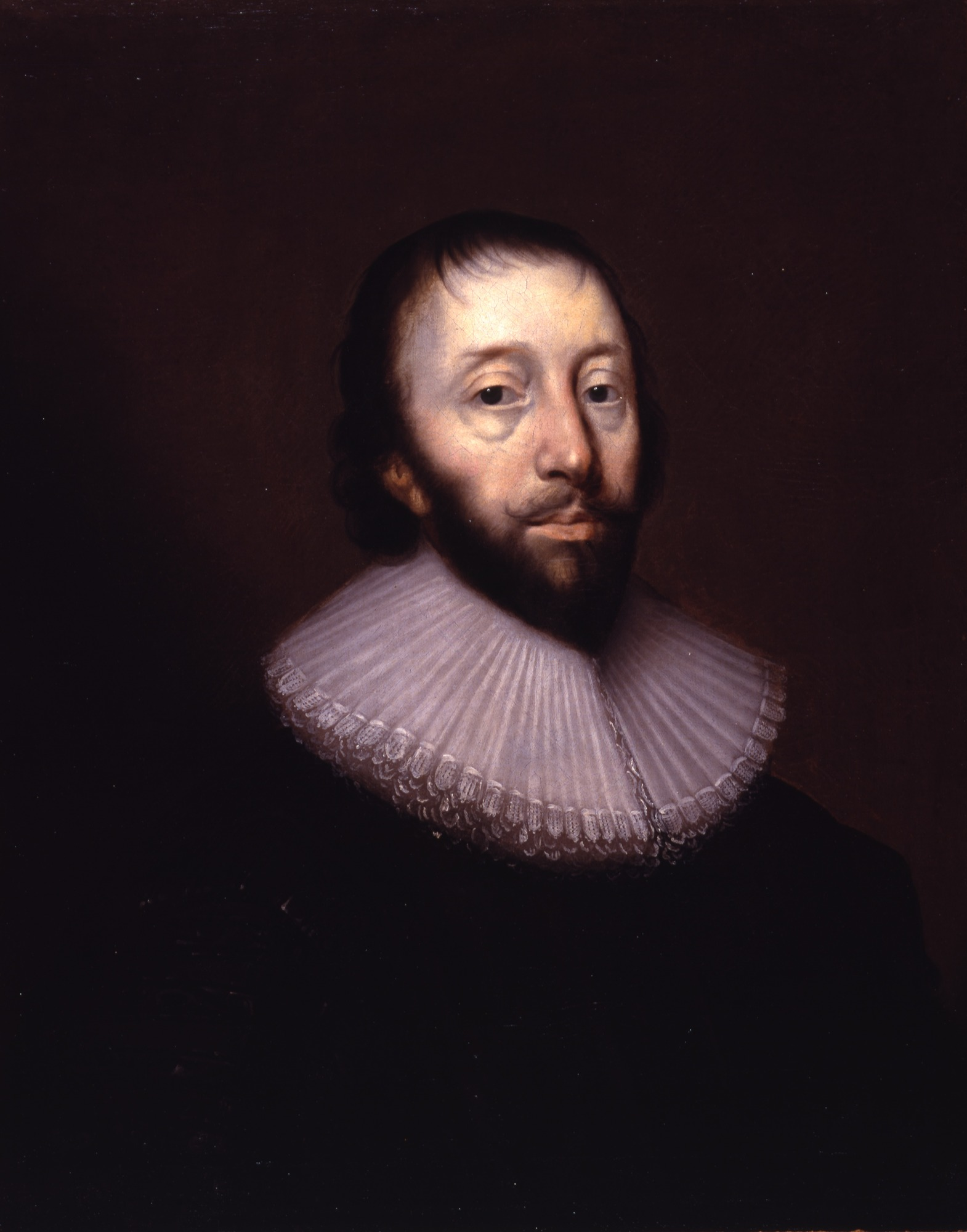 Portrait of Sir Dudley Digges (19 May c. 1583 – 18 March 1639), by an artist of the school of Cornelis Janssens van Ceulen. Oil on canvas, 70.5 cm x 56 cm. Courtesy of the collection of Canterbury City Council Museums and Galleries.